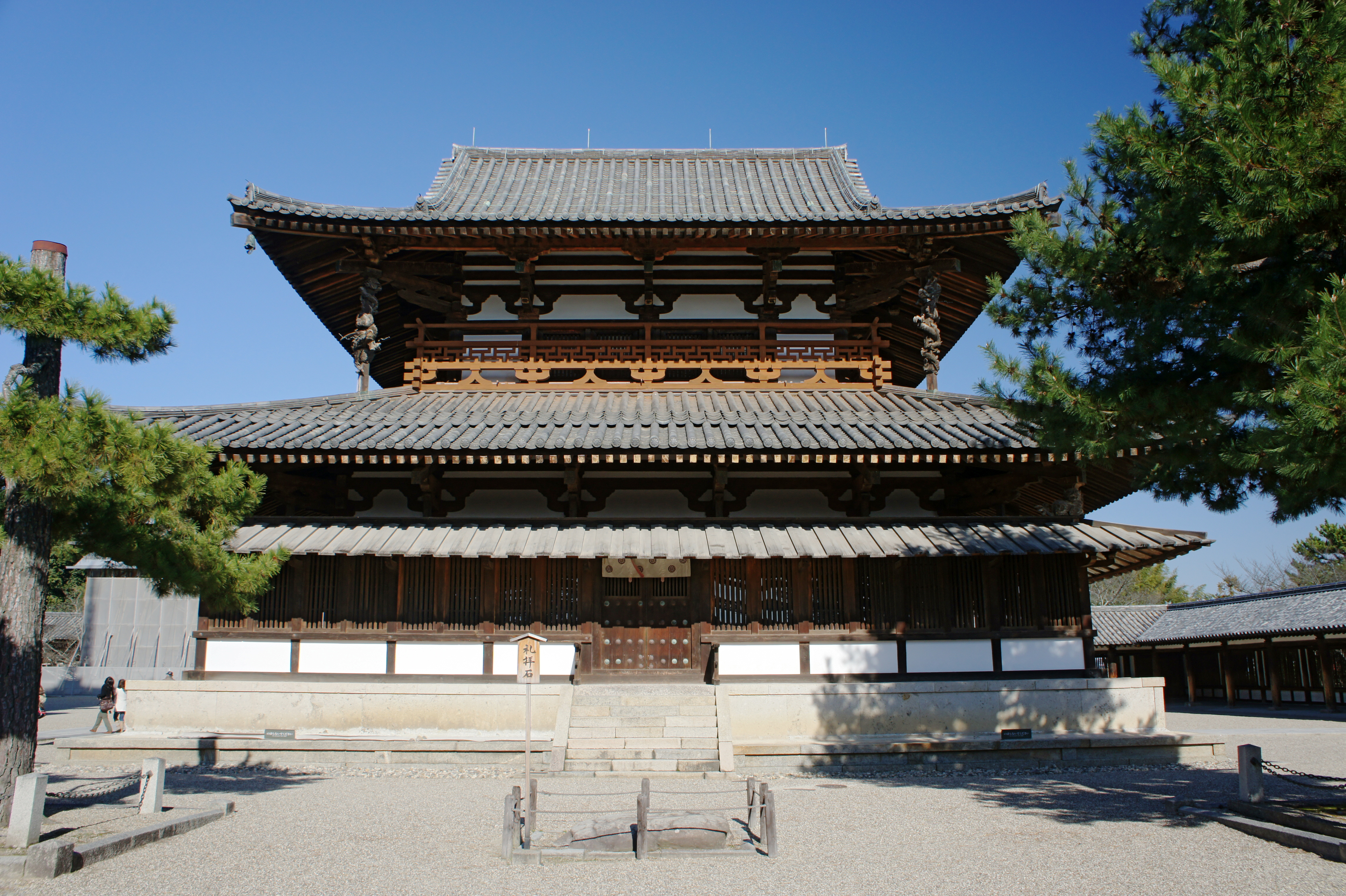 Golden Hall of Hōryū-ji is a Japan's National Treasure. Hōryū-ji is a Buddhist temple in Ikaruga, Nara prefecture, Japan. It was registered as part of the UNESCO World Heritage Site "Buddhist Monuments in the Hōryū-ji Area".